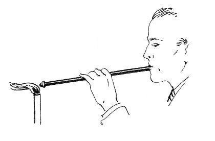 line art drawing